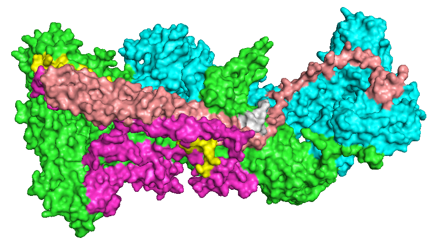 Surface model of the WAVE Regulatory Complex, drawn from RCSB PDB 4N78 by ZC Chen, 2014 (from Showing CYFIP1 (green), WAVE1 (magenta), Nap1 (blue), Abi2 (pink) and HSPC300 (yellow).